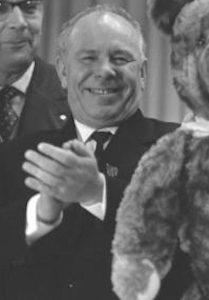 Cropped photograph of Soviet official, Nikolai Podgorny, in 1963 (flanked on his left by NS Crushchev). Original image cropped using Photo Editor at